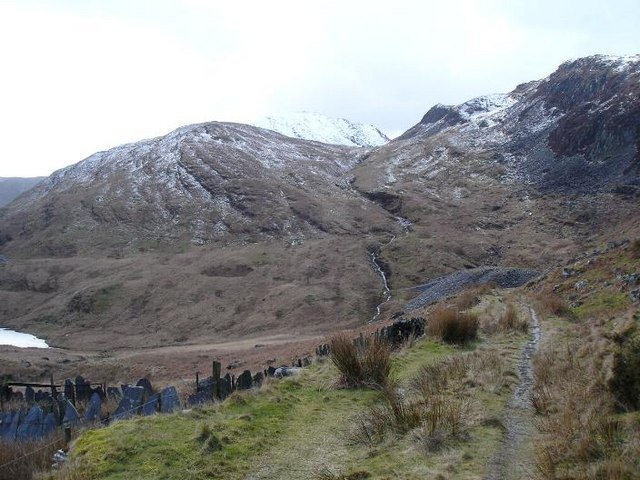 Crimea Pass. From the edge of the pass with Moel Druman in the distance